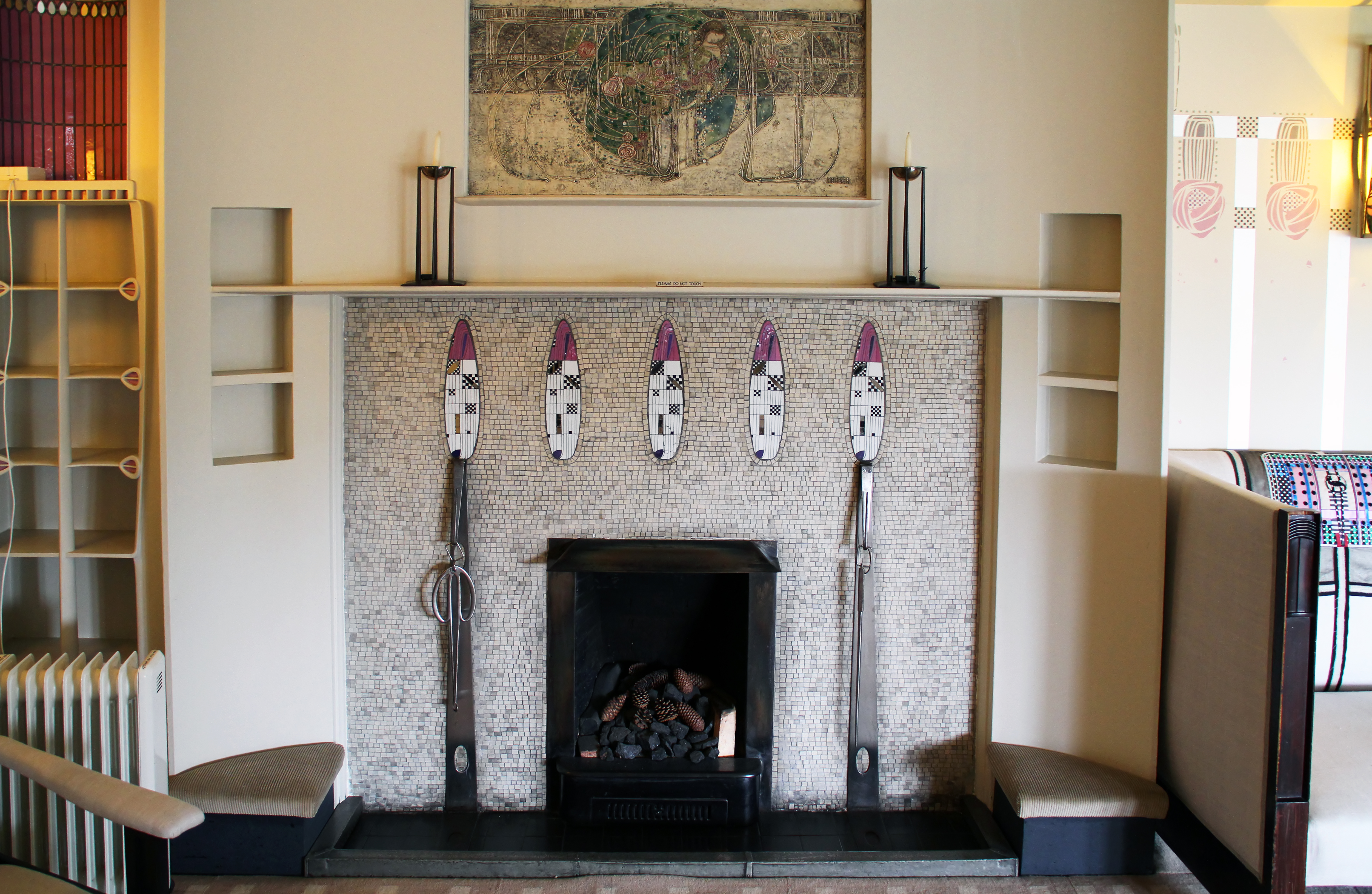 Hill House by Charles and Margaret Macdonald Mackintosh. It was designed and built for the publisher Walter Blackie in 1902 – 1904.